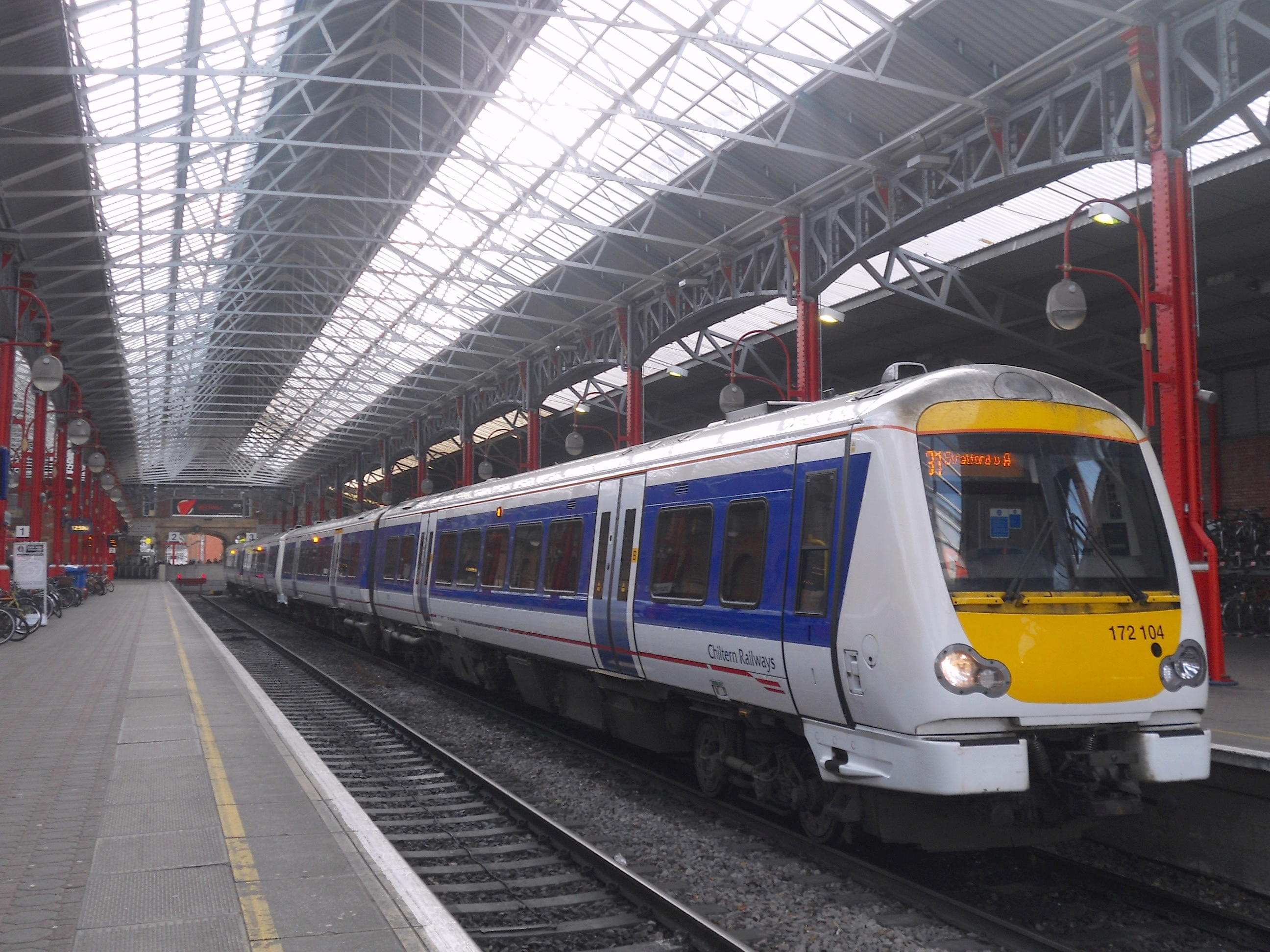 A pair of Chiltern Railways Class 172/1 No. 172104 and No. 172102 at London Marylebone